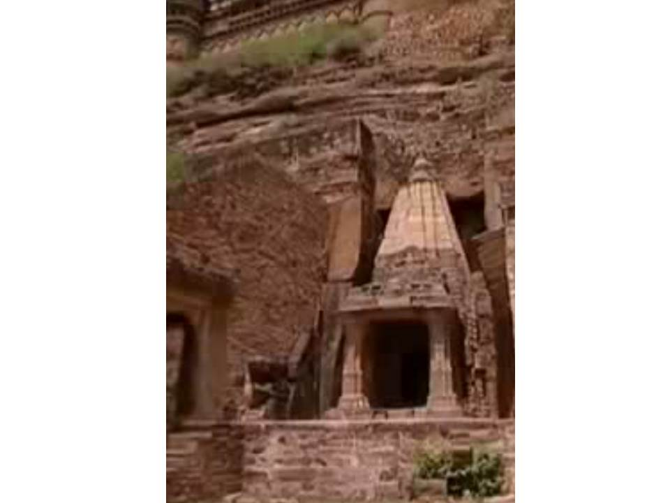 Gwlaiar Shiva Temple where first carved Zero is depicted